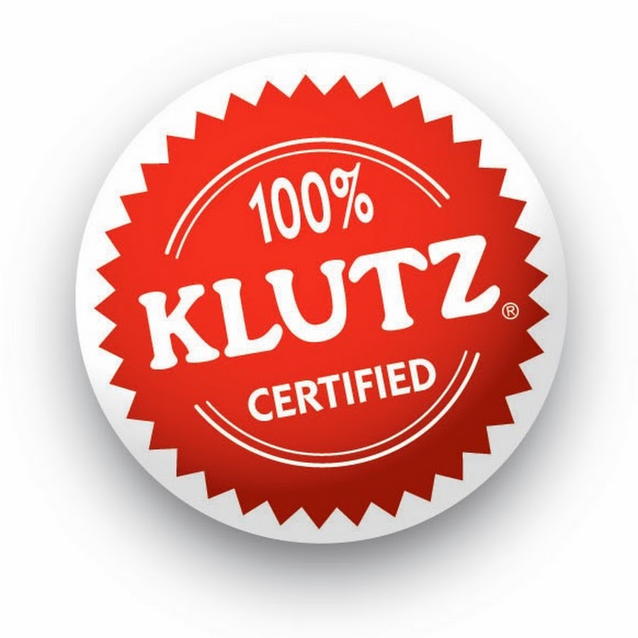 Logo for Klutz Press